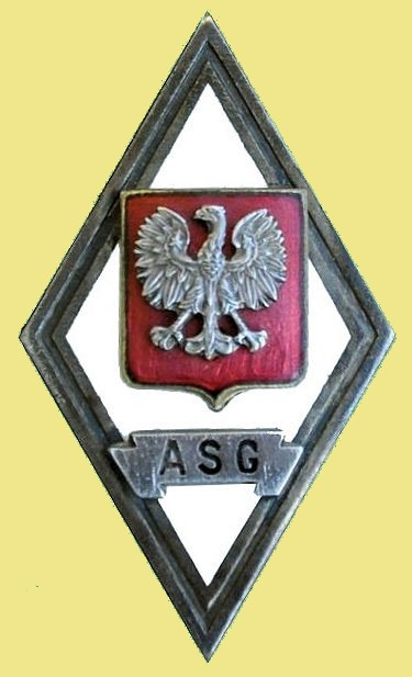 Graduate badge of the "General Staff College" of the Armed Forces of Poland.